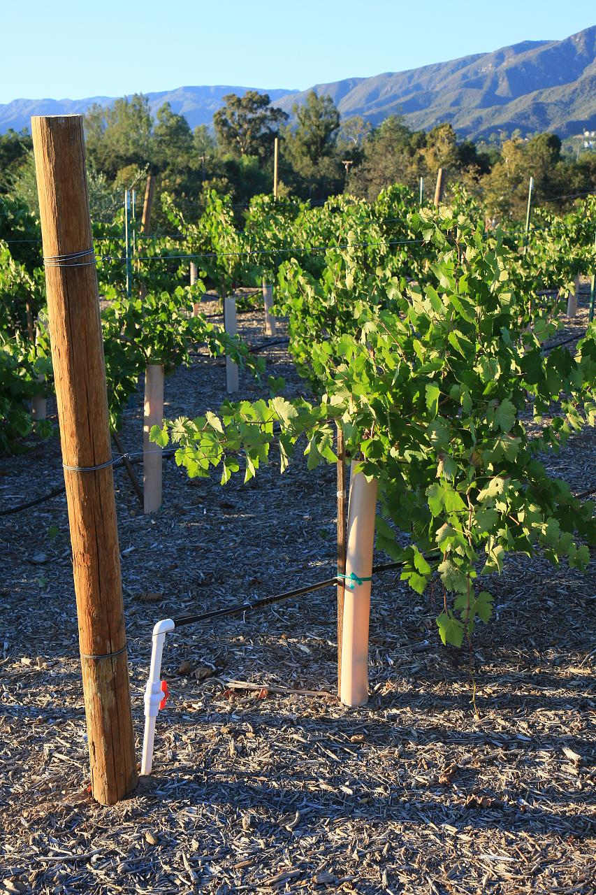 Young Syrah vines being trained into their trellising system. The orange-salmonish tubing around the trunk of the grapevine is to protect the vine and help it adjust to its training.